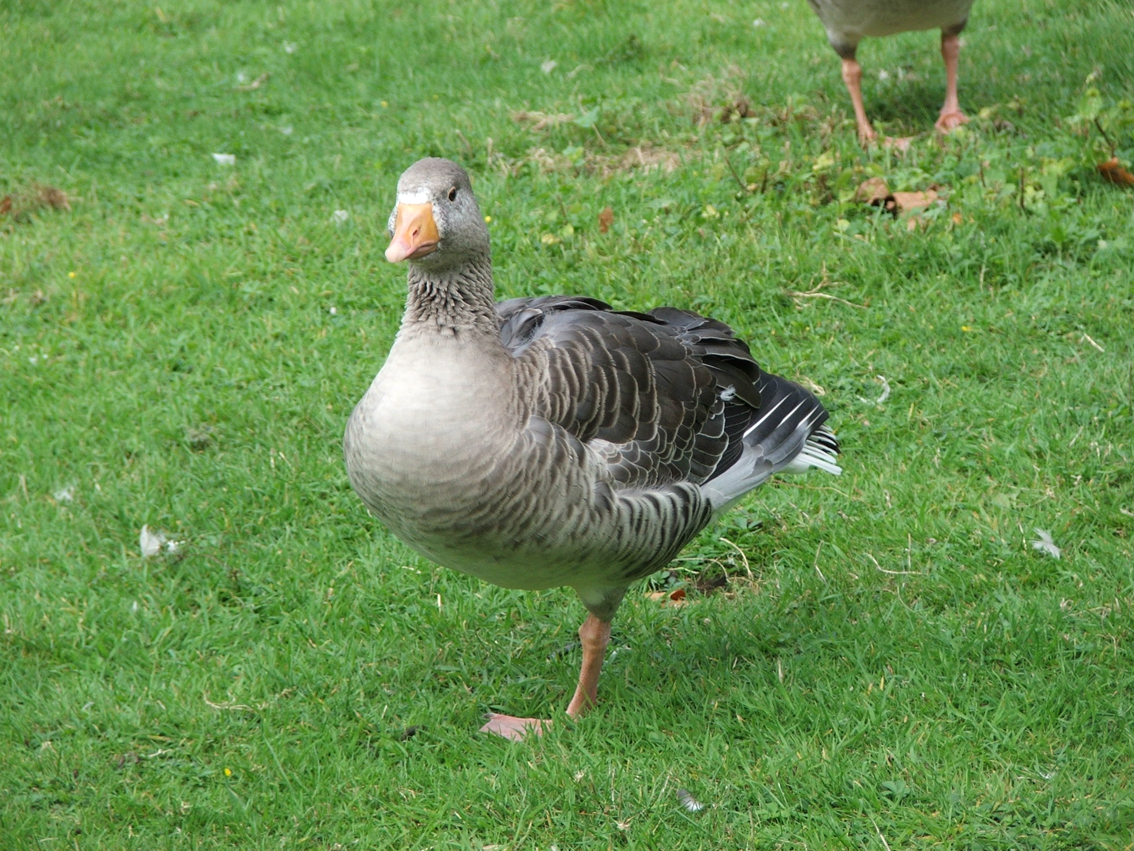 Anser anser in St James Park, London, England